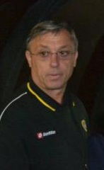 Златко Крањчар